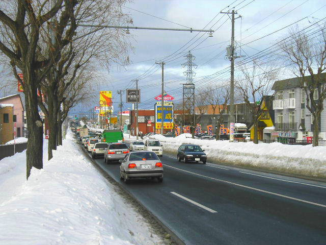 Hokkaido Prefectural Road 452 Shimoteine-Sapporo Line, Sapporo, Japan